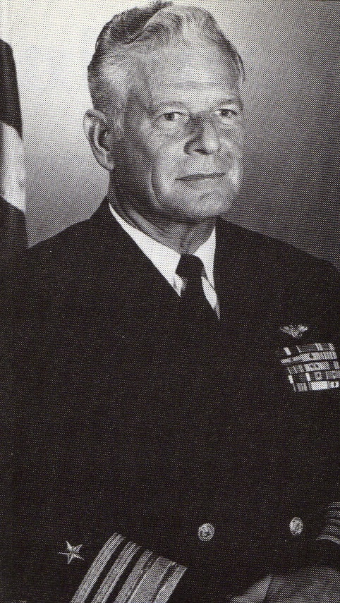 Dick Henry Guinn (March 27, 1918 - August 26, 1980) was a highly decorated officer in the United States Navy with the rank of Vice admiral. A Naval Academy graduate, he distinguished himself as Pilot and Flight Leader of Fighter Squadron 94 during the sinking of Japanese cruiser Aoba in July 1945 for which he received Navy Cross, the United States military's second-highest decoration awarded for valor in combat. He rose to the flag rank and commanded Bureau of Naval Personnel and Carrier Division 4. Guinn completed his career as Deputy Chief of Naval Operations (Manpower and Naval Reserve) and Chief of Naval Personnel.